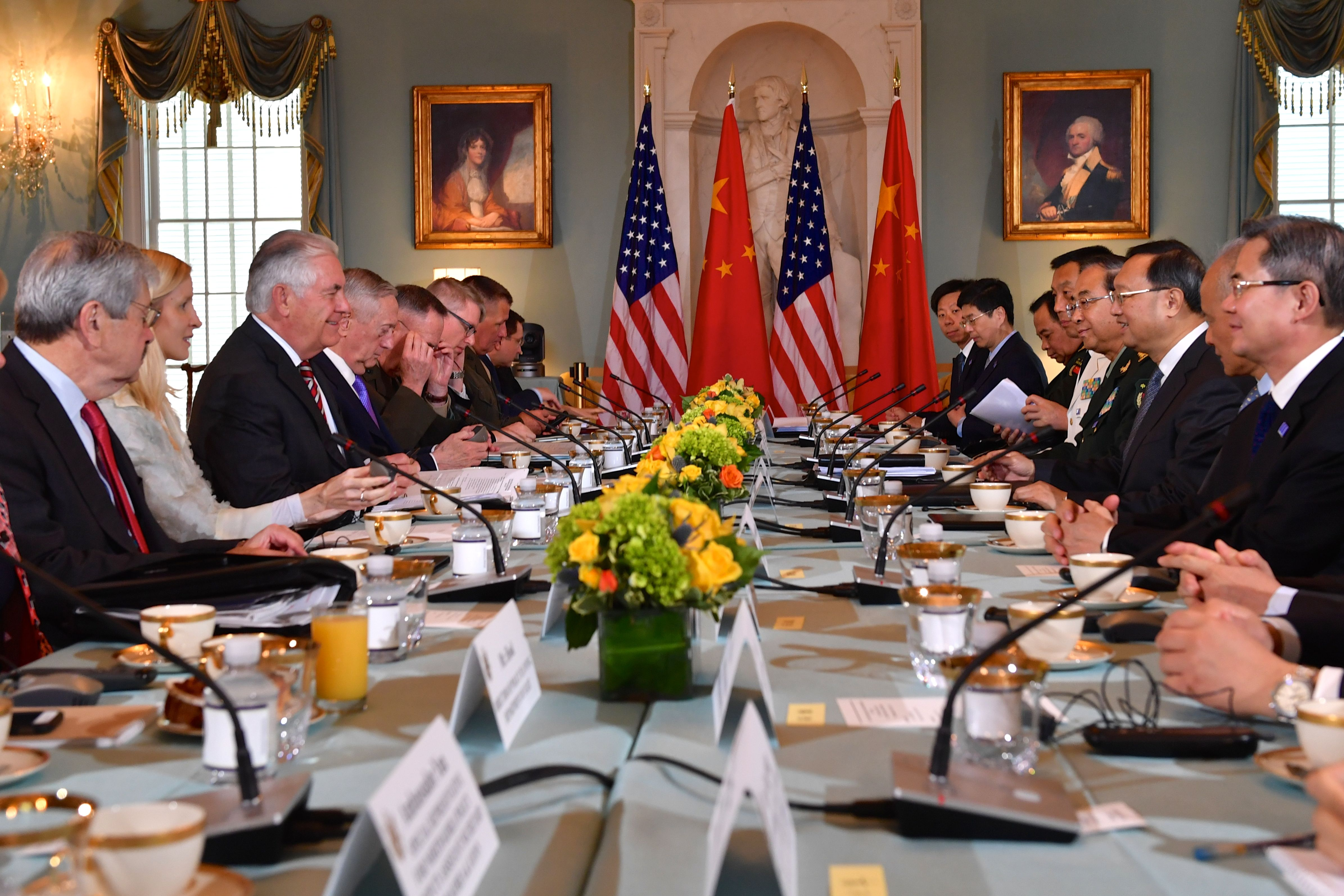 U.S. Secretary of State Rex Tillerson and U.S. Secretary of Defense James Mattis join Chinese State Councilor Yang Jiechi and General Fang Fenghui, Chief of the People’s Liberation Army’s Joint Staff Department, for the inaugural U.S.-China Diplomatic and Security Dialogue (D&SD) on June 21, 2017, at the U.S. Department of State in Washington, D.C. [State Department photo/ Public Domain]